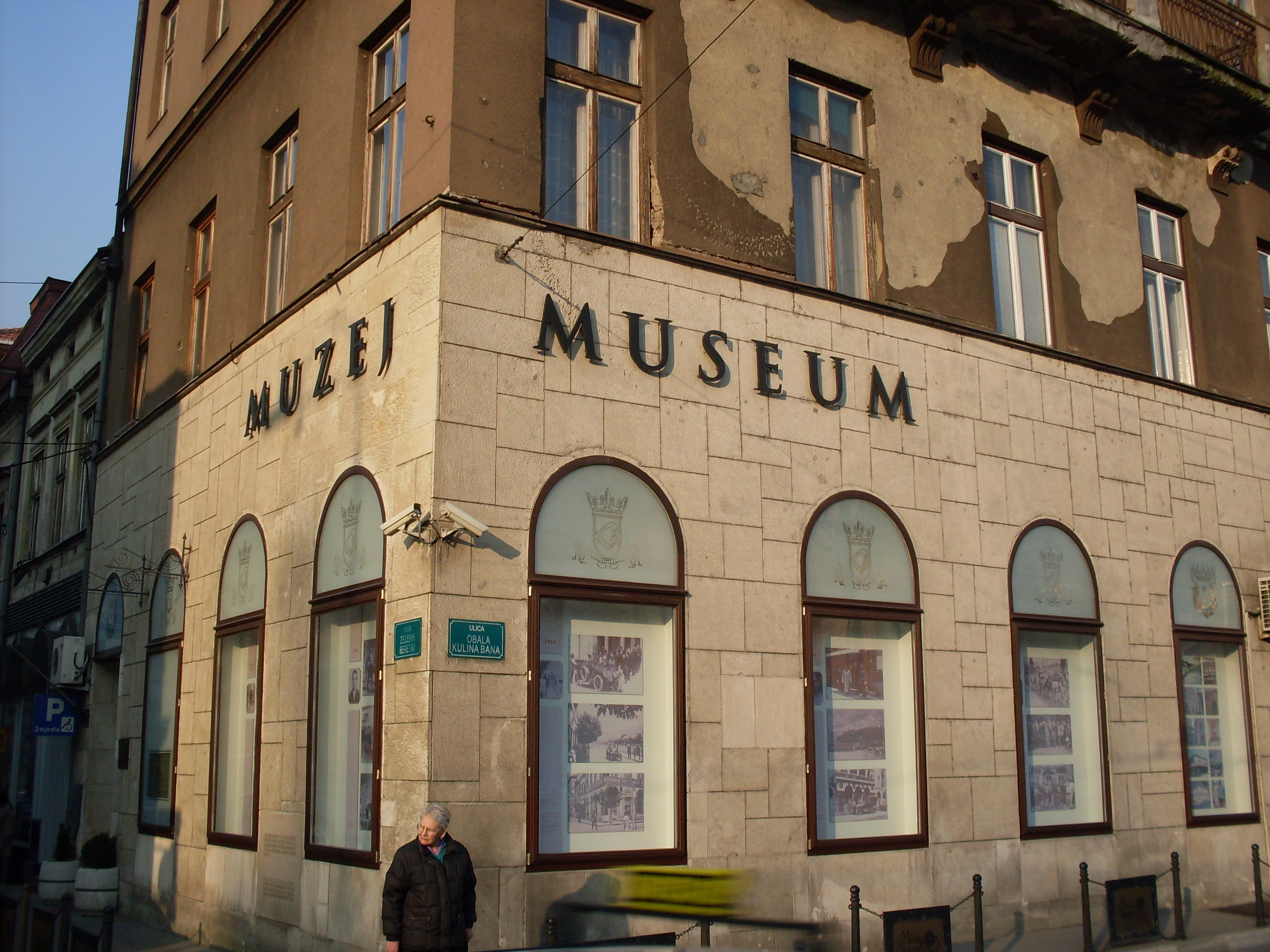 Meseum "Sarajevo 1878. – 1918."